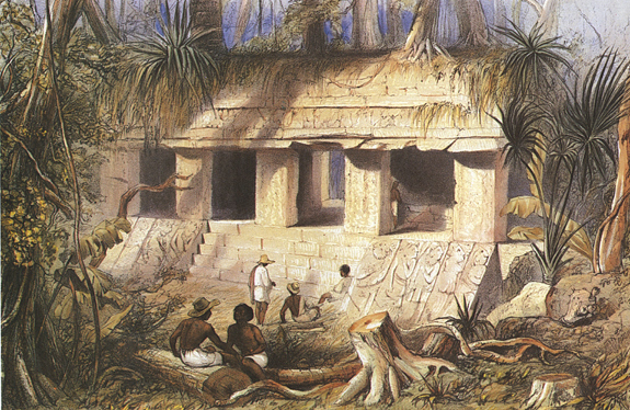 Maya ruins of Palenque, Chiapas, in 1840, by Frederick Catherwood. The Palace.